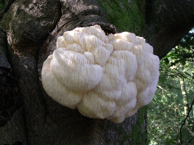 Hericium erinaceus on an old tree in Shave Wood, New Forest This Hericium erinaceum fungus (also known as "tree hedgehog fungus" or "bearded tooth") is growing on a wound on the trunk of an old oak tree in Shave Wood. It is classified as endangered in Great Britain, and its distribution is restricted to areas of woodland where there has been a long continuity of old trees.